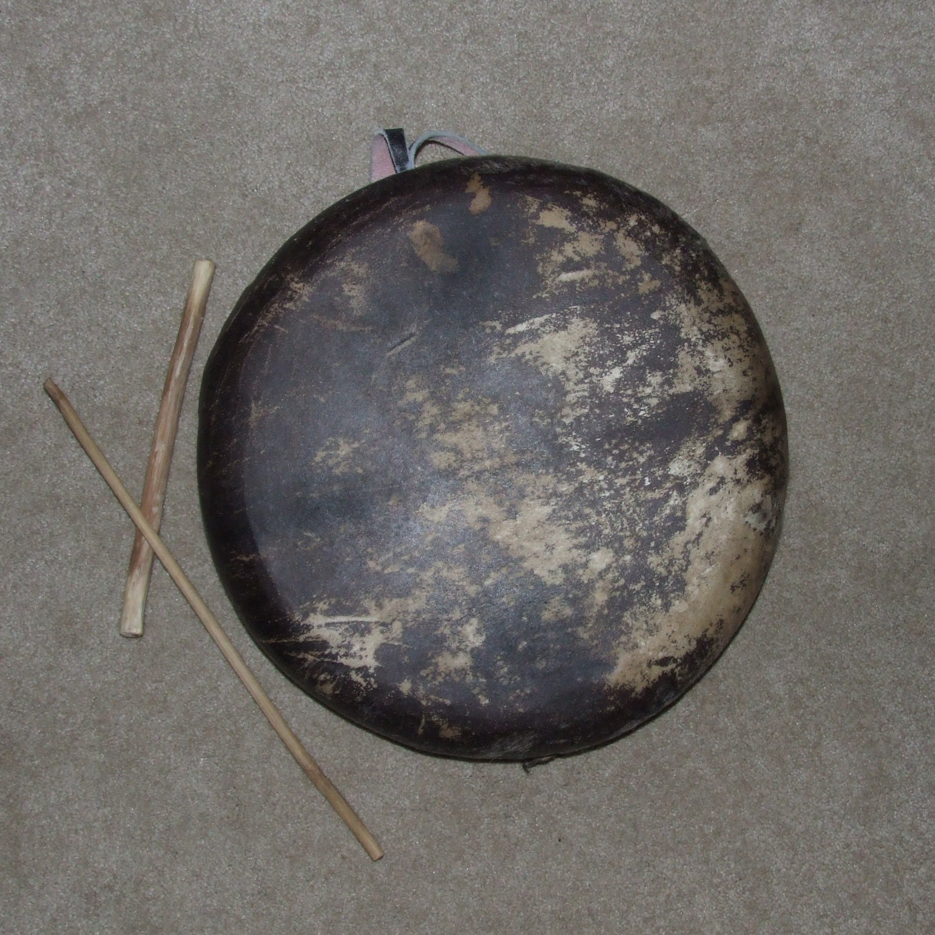 Front side of Parai with the sticks used to play the instrument